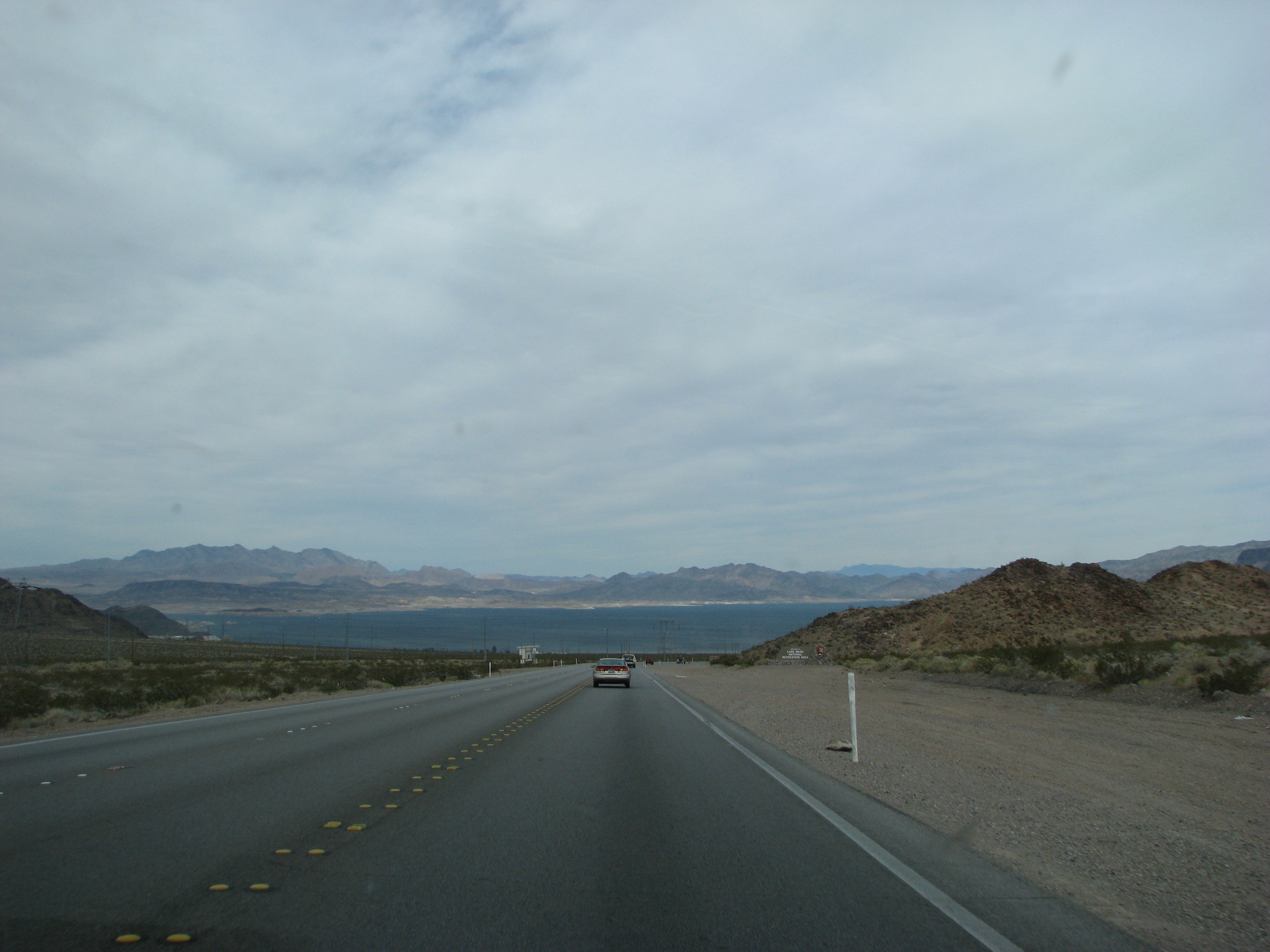 U.S. route 93 (southbound) between Boulder City, NV and the Hoover Dam.